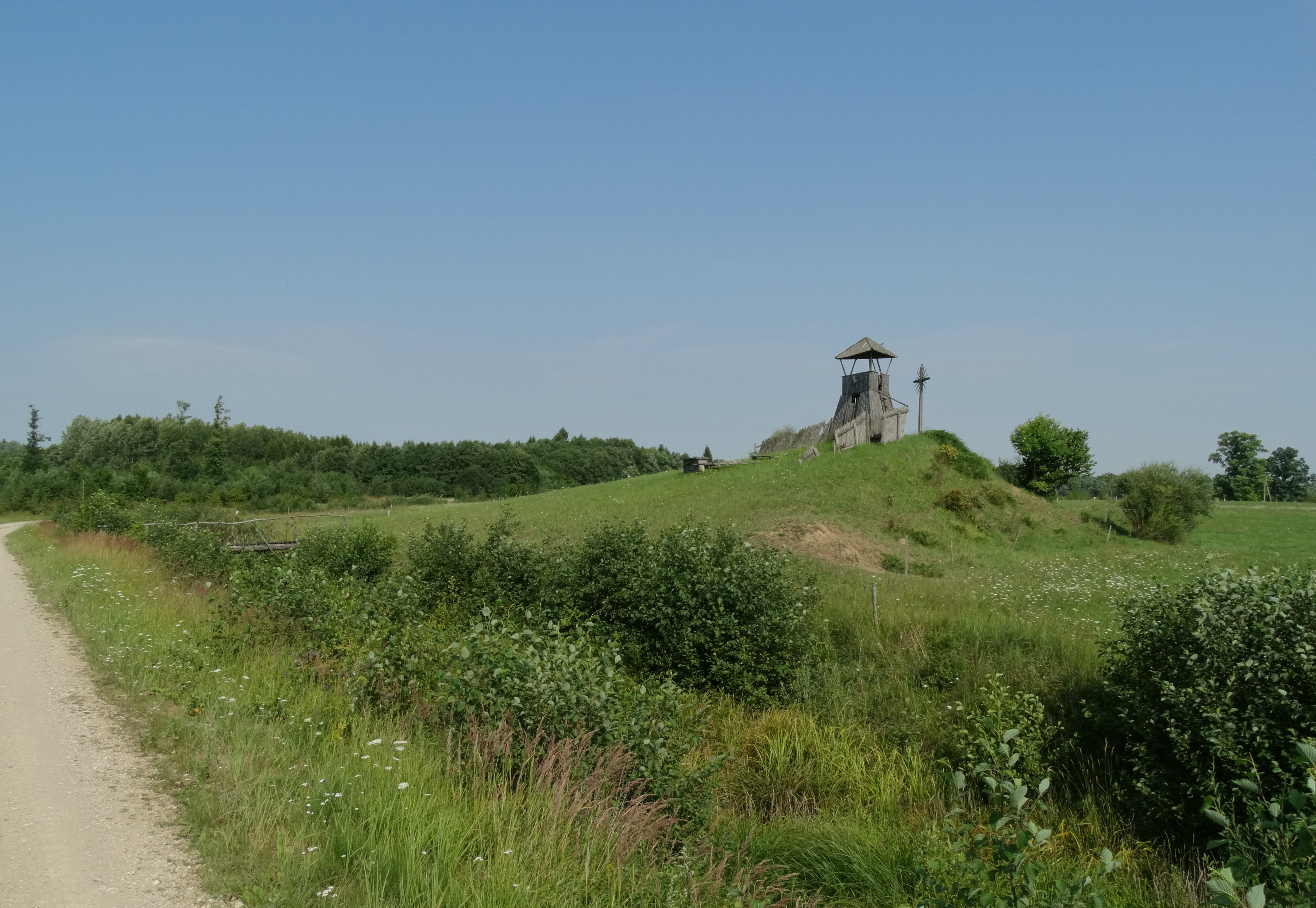 Žeimiai, Joniškis District, Lithuania